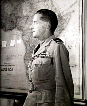 AWM caption: R.A.F. M.E. H.Q. AIR VICE MARSHAL DRUMMOND 2ND IN COMMAND IN M.E. AND A WESTERN AUSTRALIAN GAVE A GREAT TALK TO AUSTRALIAN PRESSMEN THIS DAY. HE WAS EDUCATED AT SCOTCH COLLEGE.